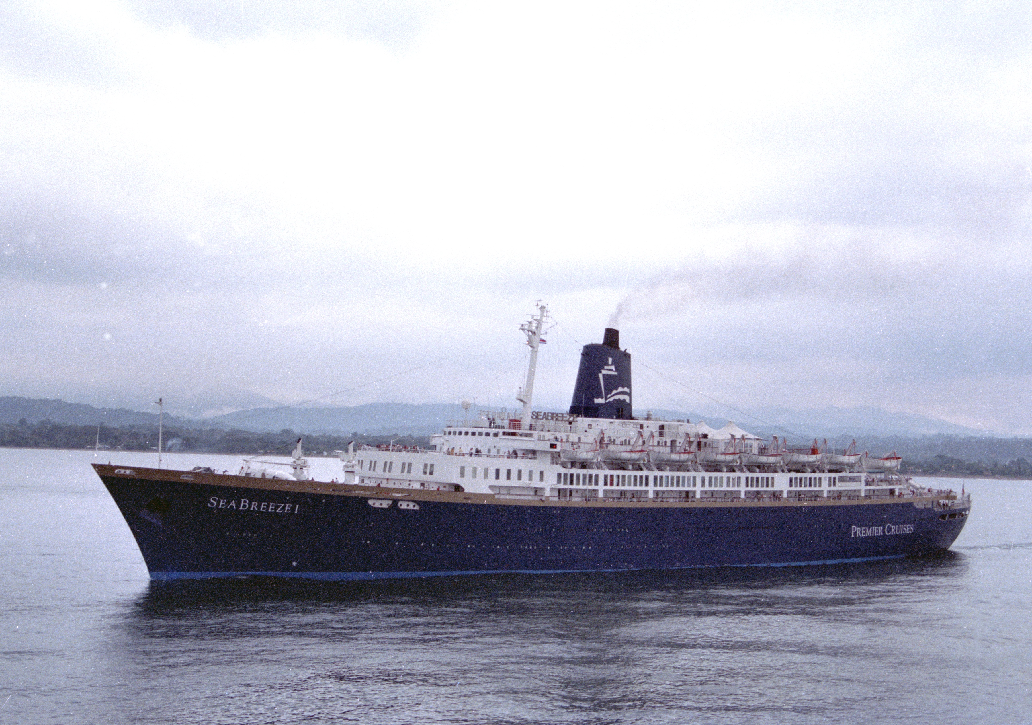 The cruise ship SeaBreeze I in Limón's harbor in 1999.